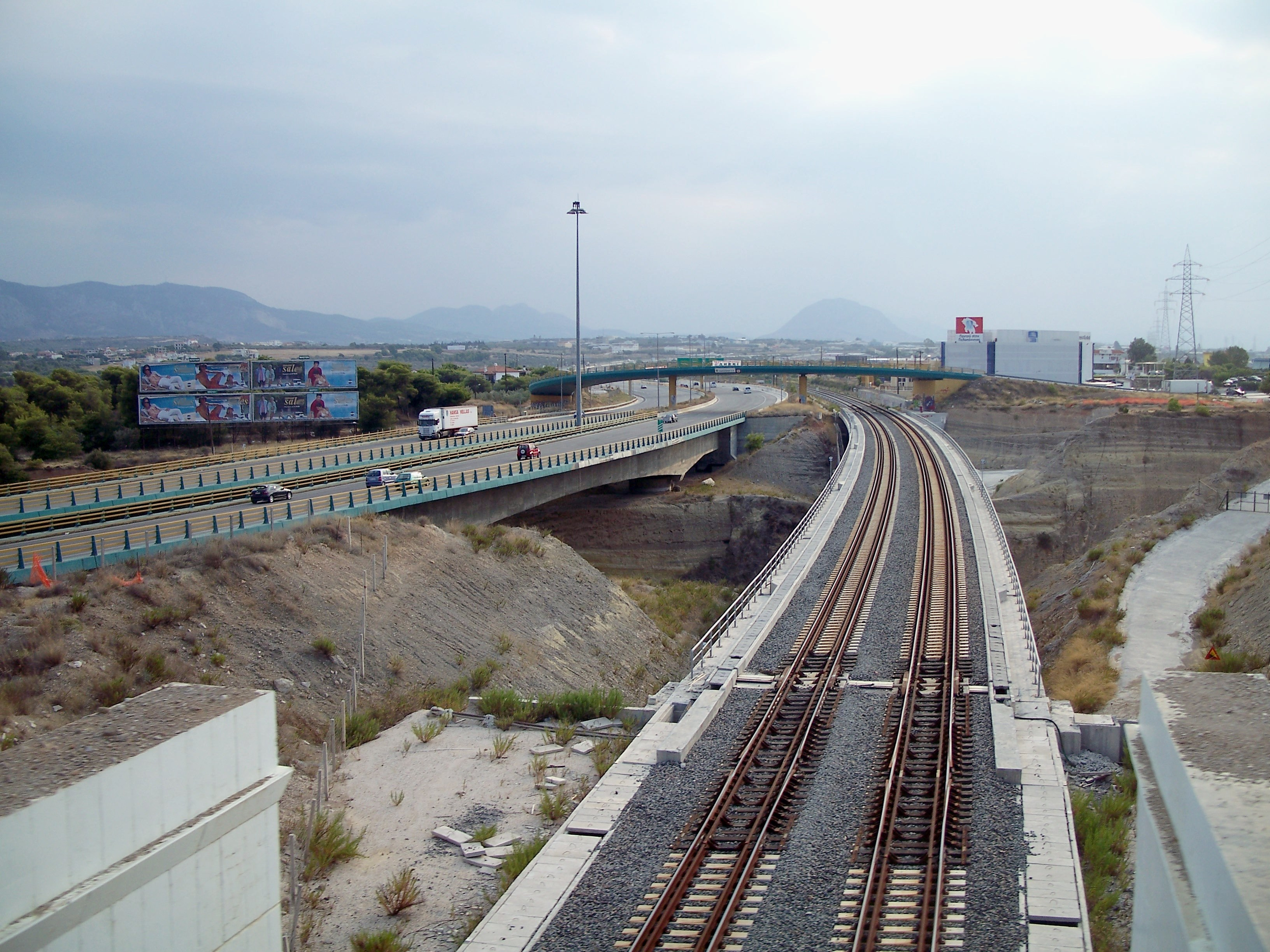 The rail bridge over the Isthmus of Corinth and the road bridge on the left